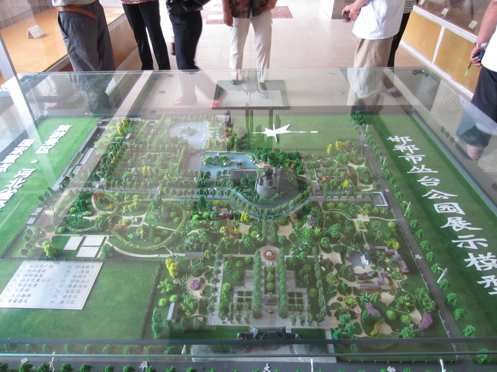 Congtai park view model.